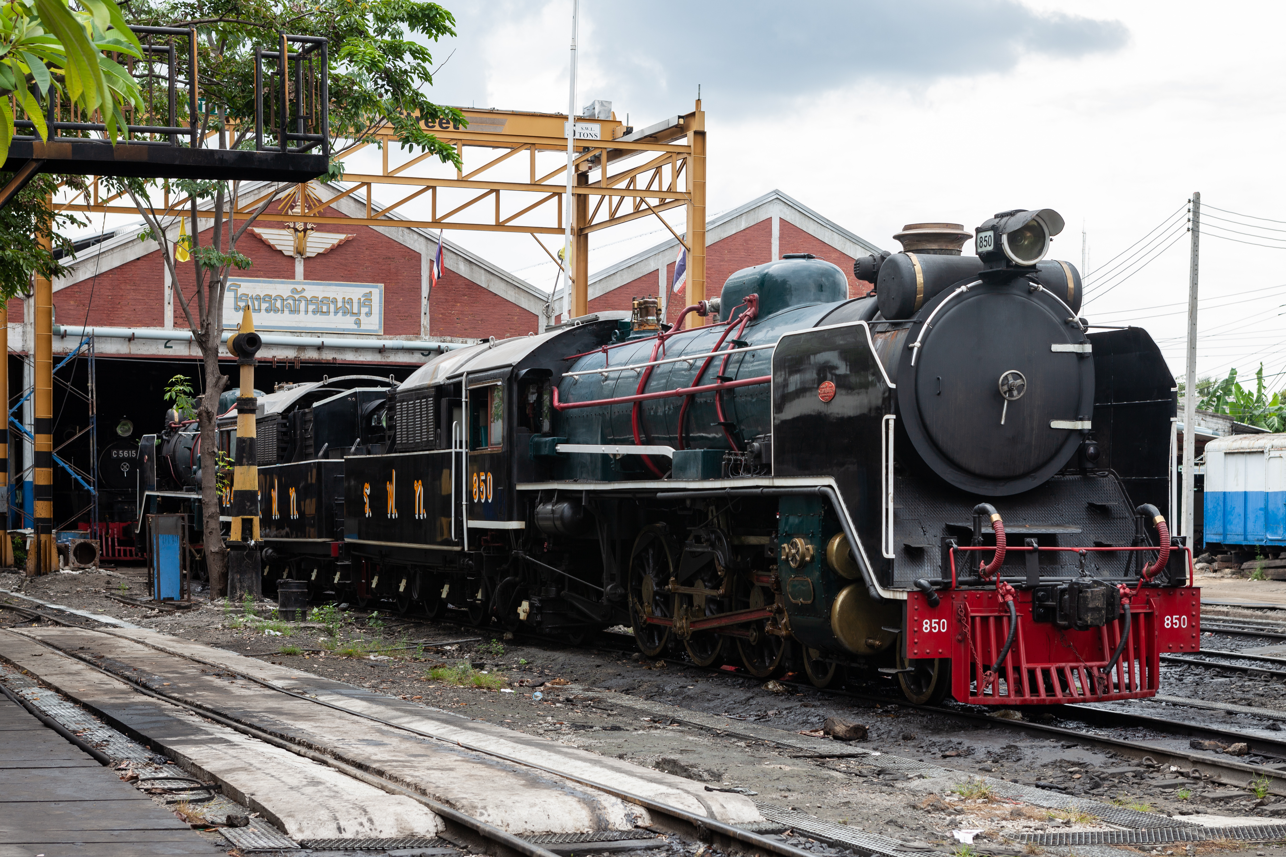 JNR Class CX50 or CX50 steam locomotive located in Thonburi Rail Yard, Bangkok.